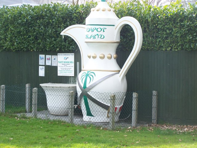 Teapot Island Wishing Well This super-sized teapot collects money for Kent Air Amublance Trust.It was made in Germany. It is in the cafe garden of Teapot Island. For more details